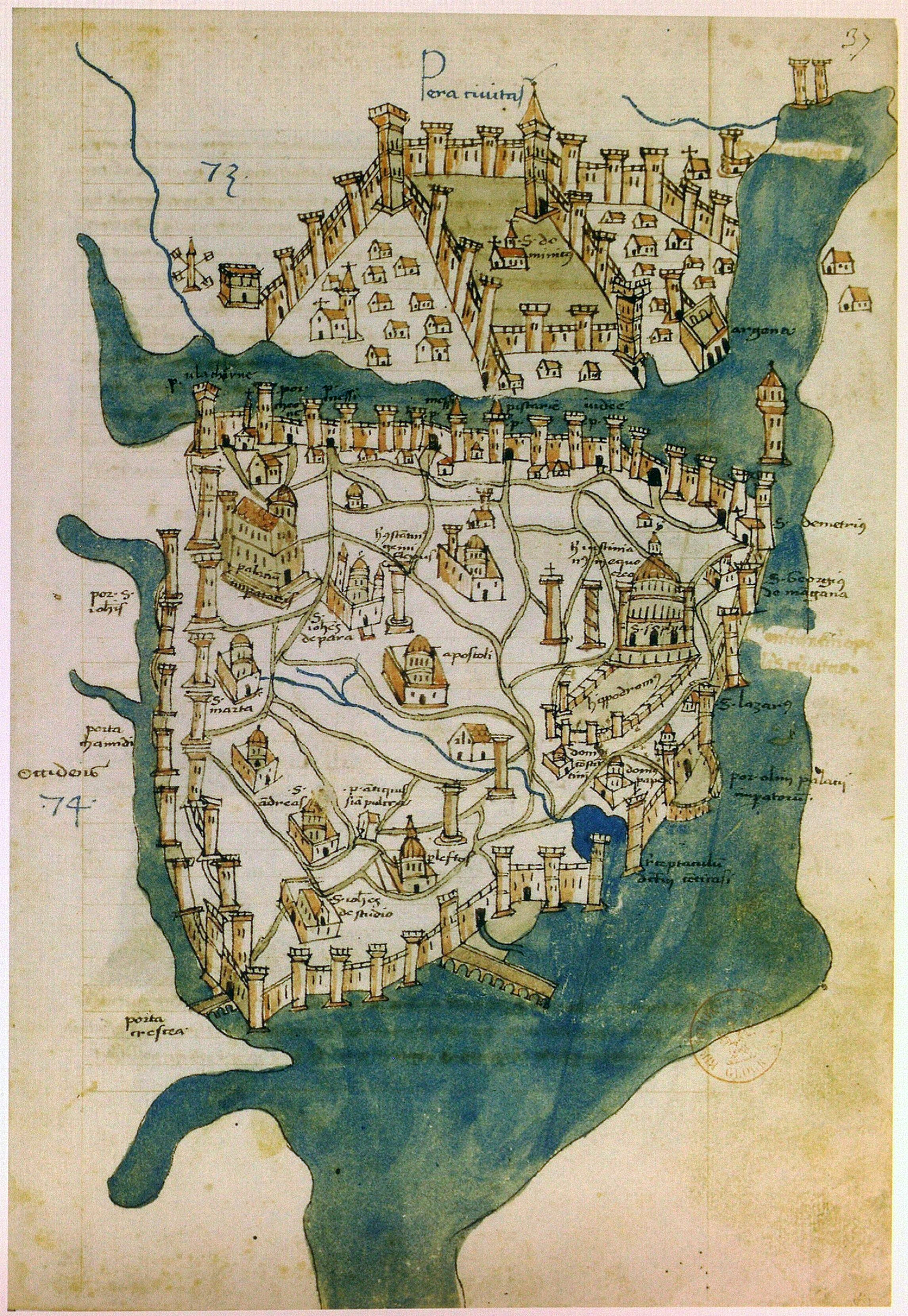 A map of Constantinople in Buondelmonti’s „Liber insularum archipelagi“. Paris, Bibliothèque nationale de France, Département des Cartes et Plans, Ge FF 9351 Rés., fol. 37r.